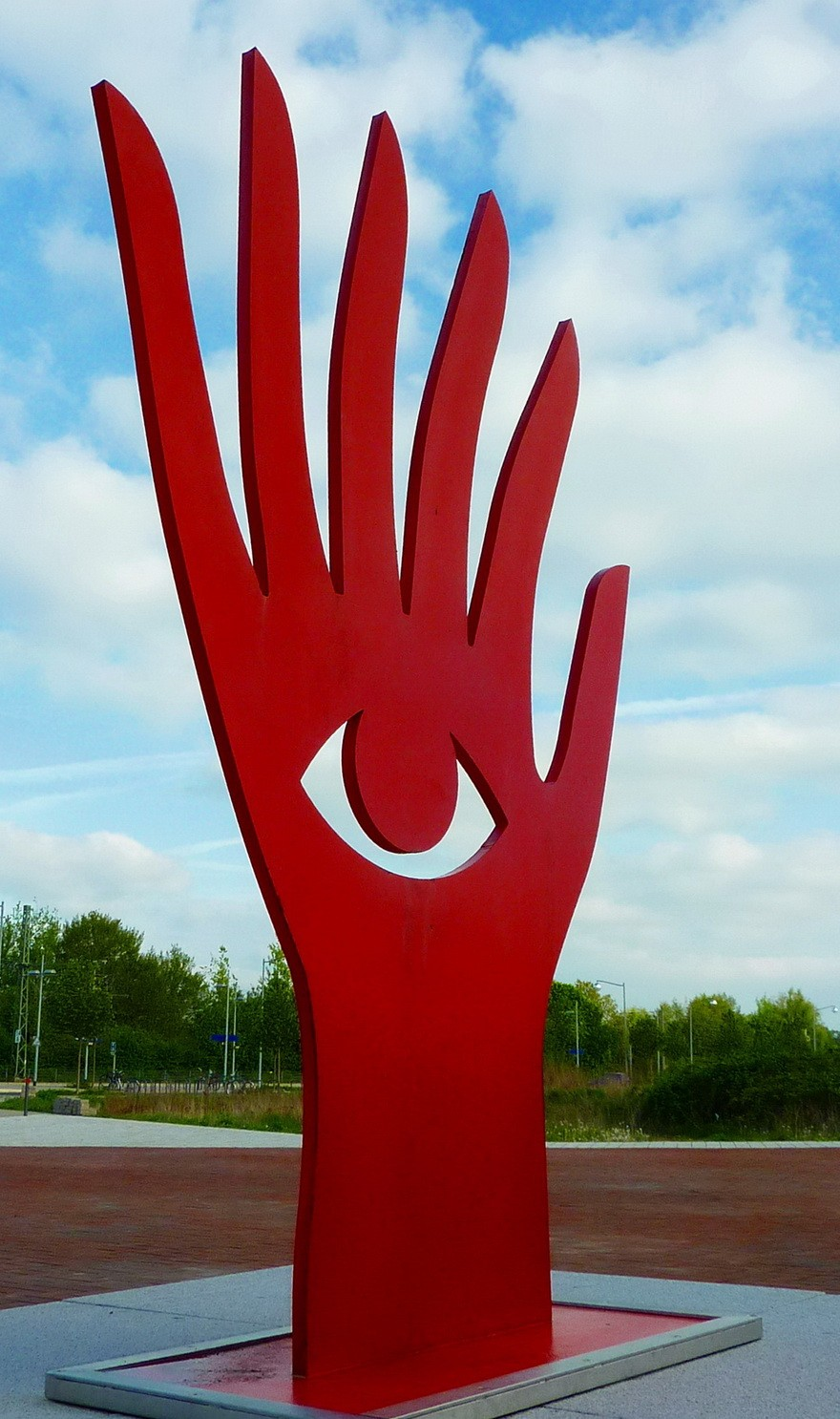 RenRong, Augenhand, Metall, 1999